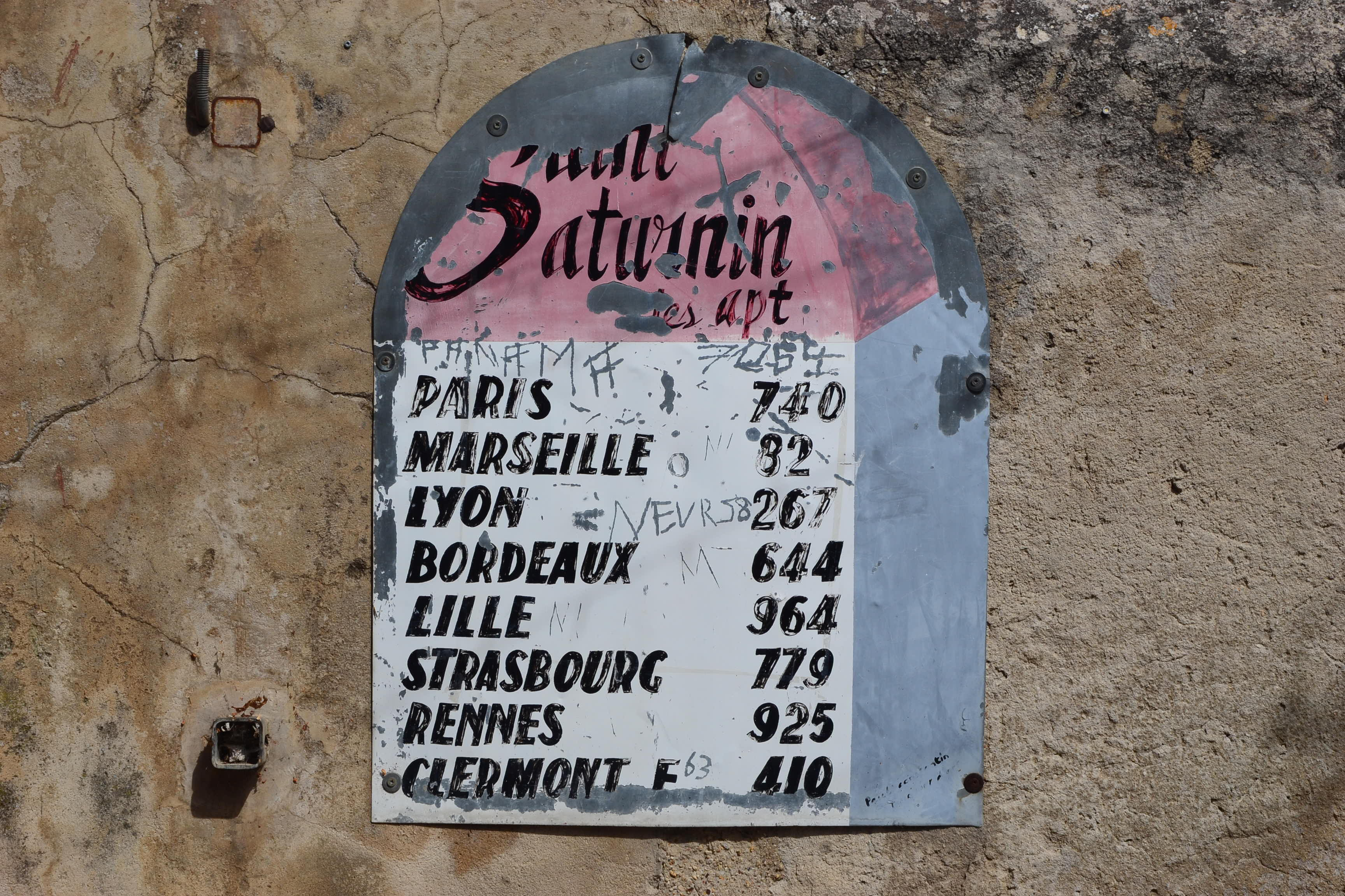 Old traffic sign in Saint Saturnin-les-Apt, Vaucluse, France